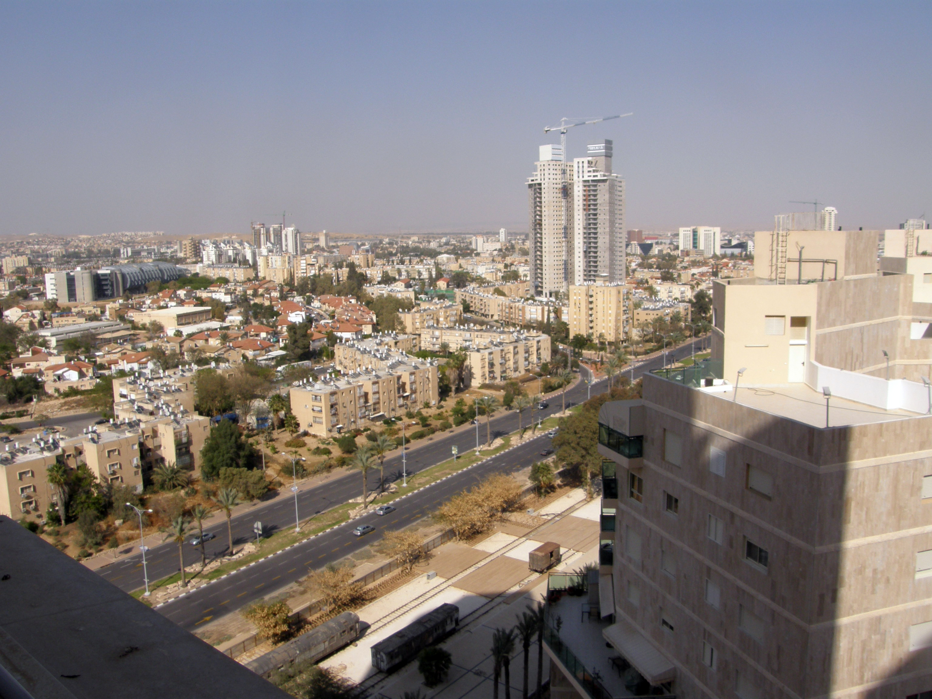 Beersheba bird's eye view